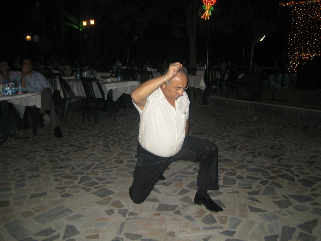 Zeybek dance